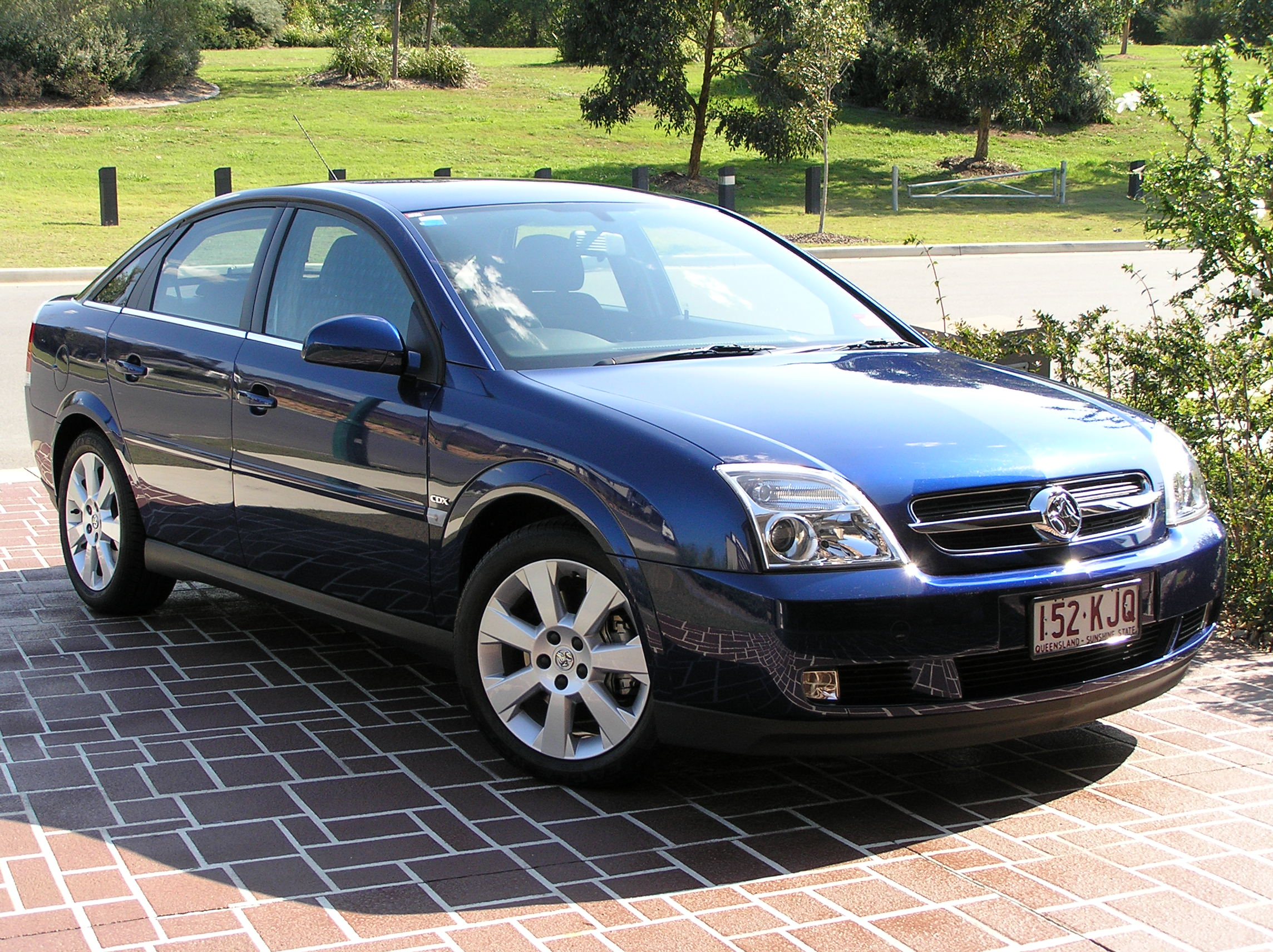 2005 Holden Vectra (ZC MY05) CDX hatchback. Photographed in Queensland, Australia.